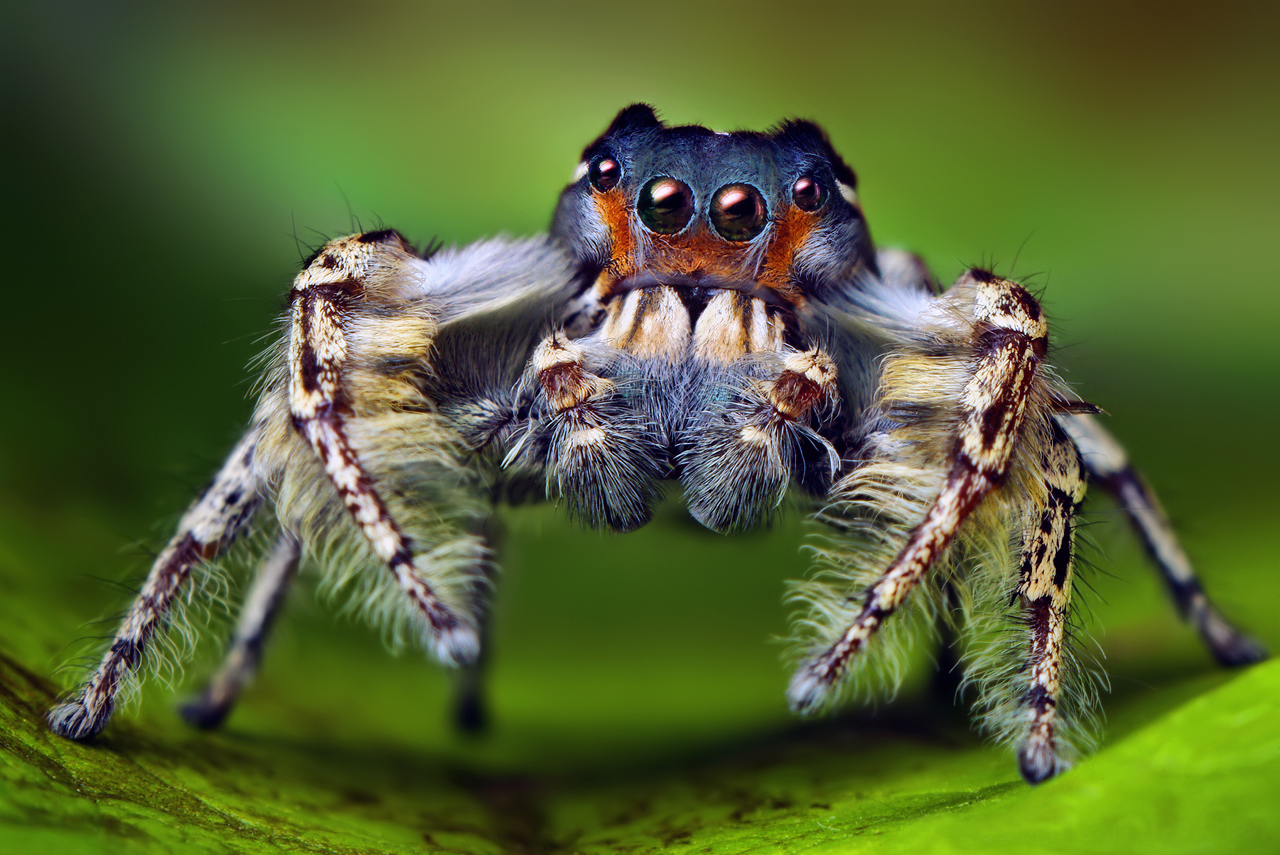 Here's another one of those shots I've been planning on taking for years - and now I've gotten it - full frame as well! My daily wanderings paid off a couple days ago as I was making my way along a trail (following a large robber fly). A little form on the railing of a wooden bridge caught my eye from about 20 feet away, and as I took a couple steps closer - it spun around to greet me and I immediately recognized the face as an adult male Phidippus putnami. These adult males have to be some of the wildest and hairiest spiders out there - the markings and tufts of hair are just unparalleled (excluding some of the really wild Habronattus species out west). The image above is a full-frame focus stack of 2 images (with a significant gap - but perfectly aligned) taken with my relatively new 10 dollar vintage Pentax-M f/2 50mm lens (at f/11 or f/16) reversed on a set of extension tubes extension tubes.